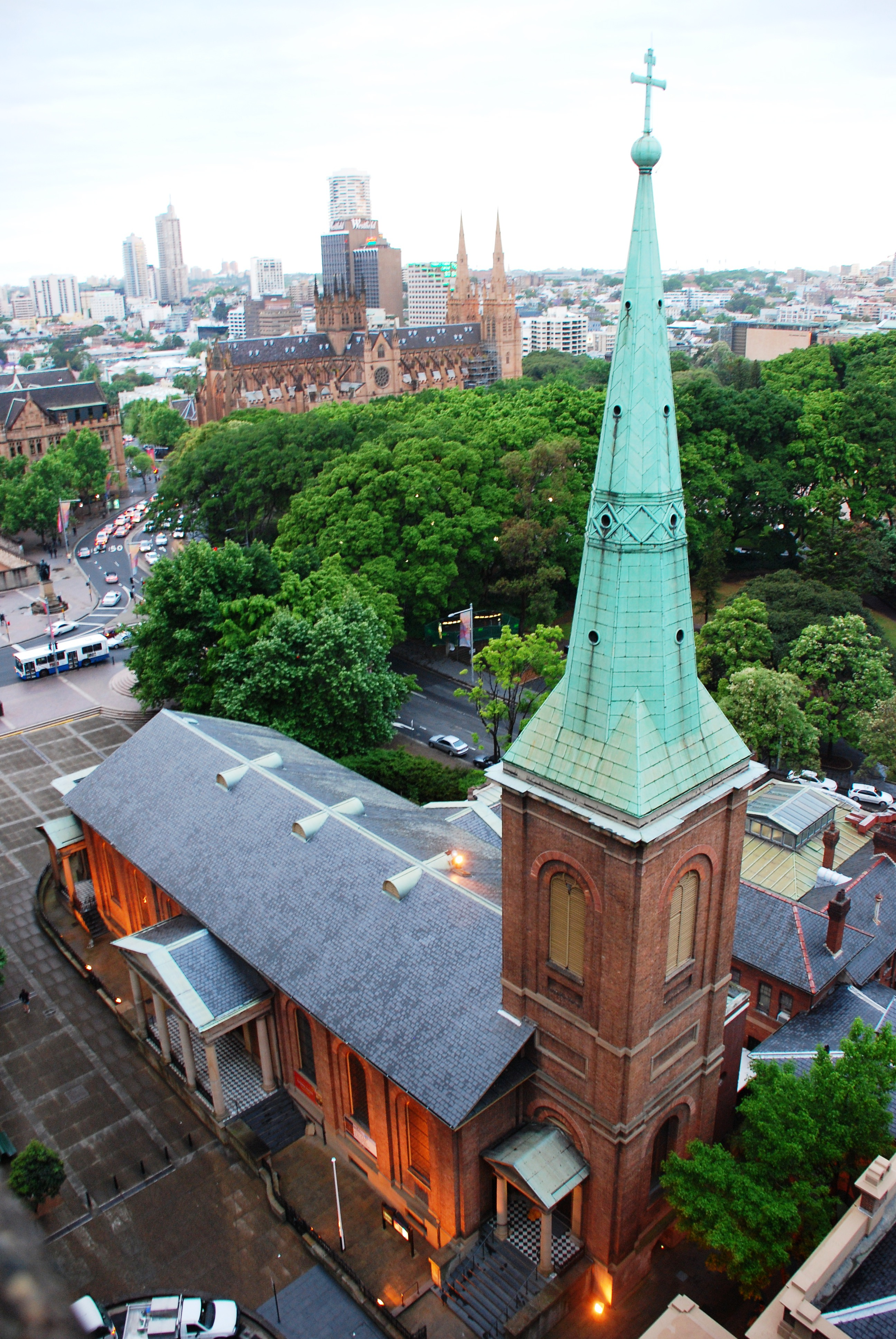 St. James Church, Sydney, in Sydney, viewed from the roof of Sydney Law School. Photo taken by Sumple on 29/10/2008. As a courtesy, and entirely voluntarily, please notify me if you change this image or its description.